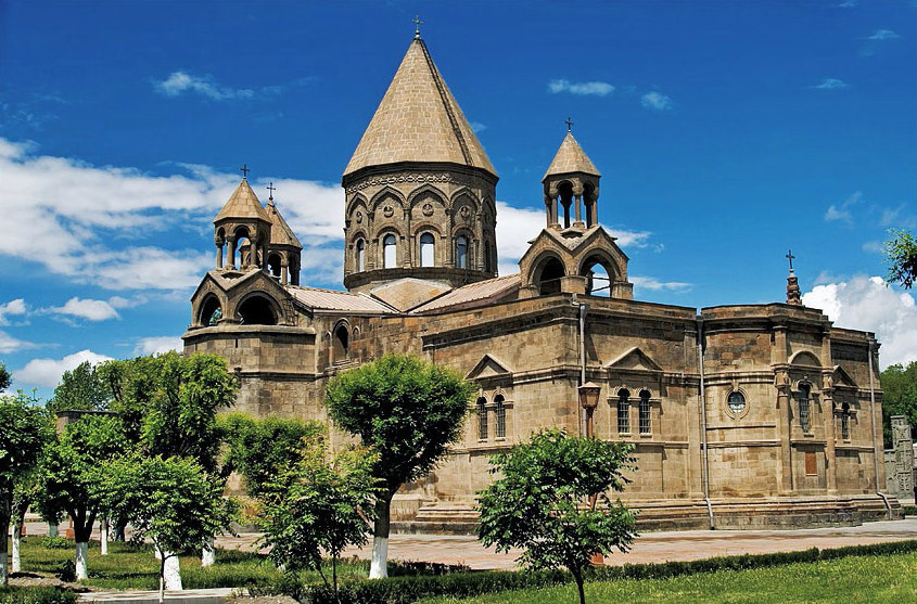 Etchmiadzin Cathedral, the mother church of Armenia.